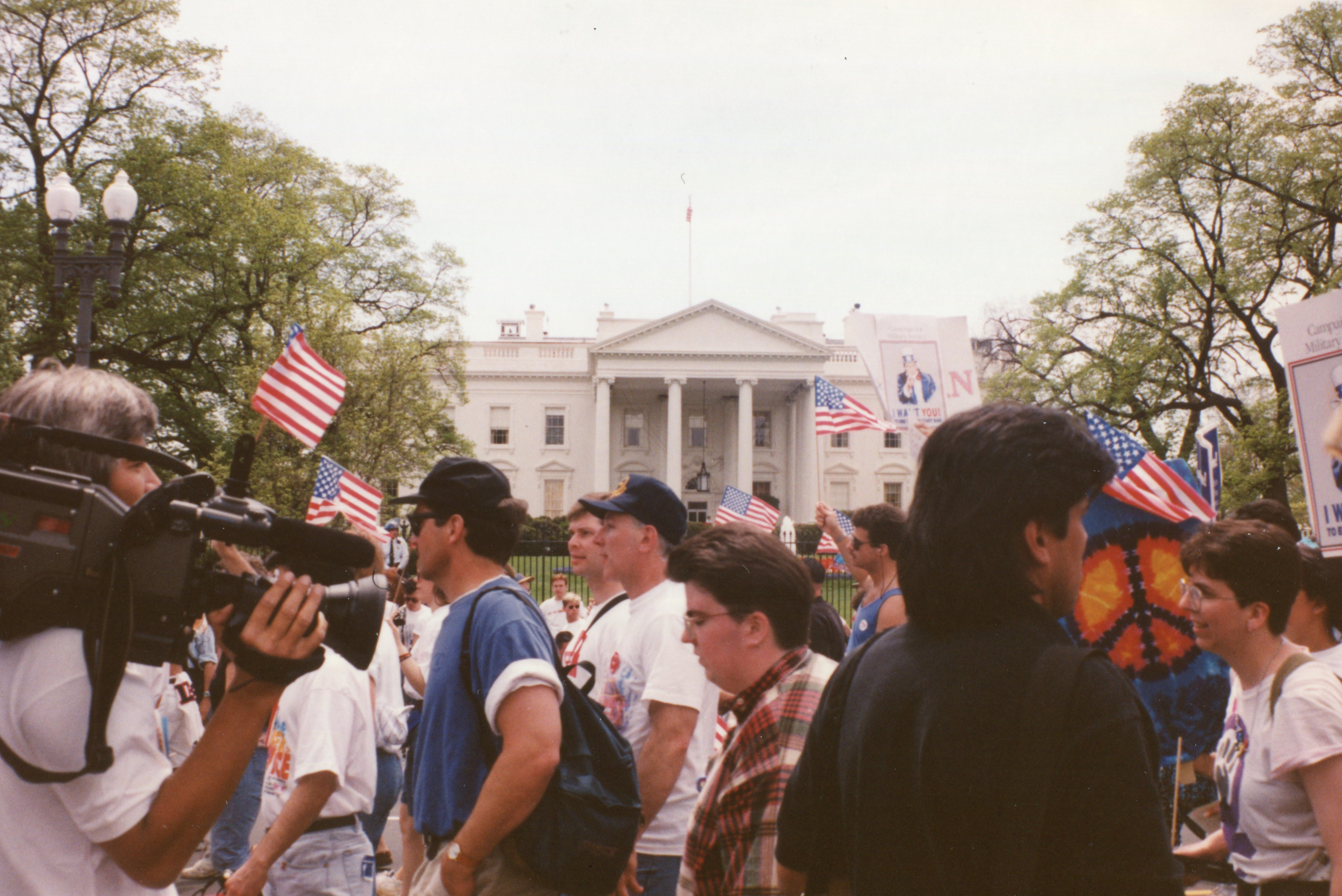 National March on Washington for Lesbian, Gay, and Bi Equal Rights and Liberation in front of the White House at 1600 Pennsylvania Avenue, NW, Washington DC on Sunday afternoon, 25 April 1993 by Elvert Barnes Photography 25 April 1993 LGBT March On Washington at Wikipedia at Elvert Barnes MARRIAGE EQUALITY ongoing project at